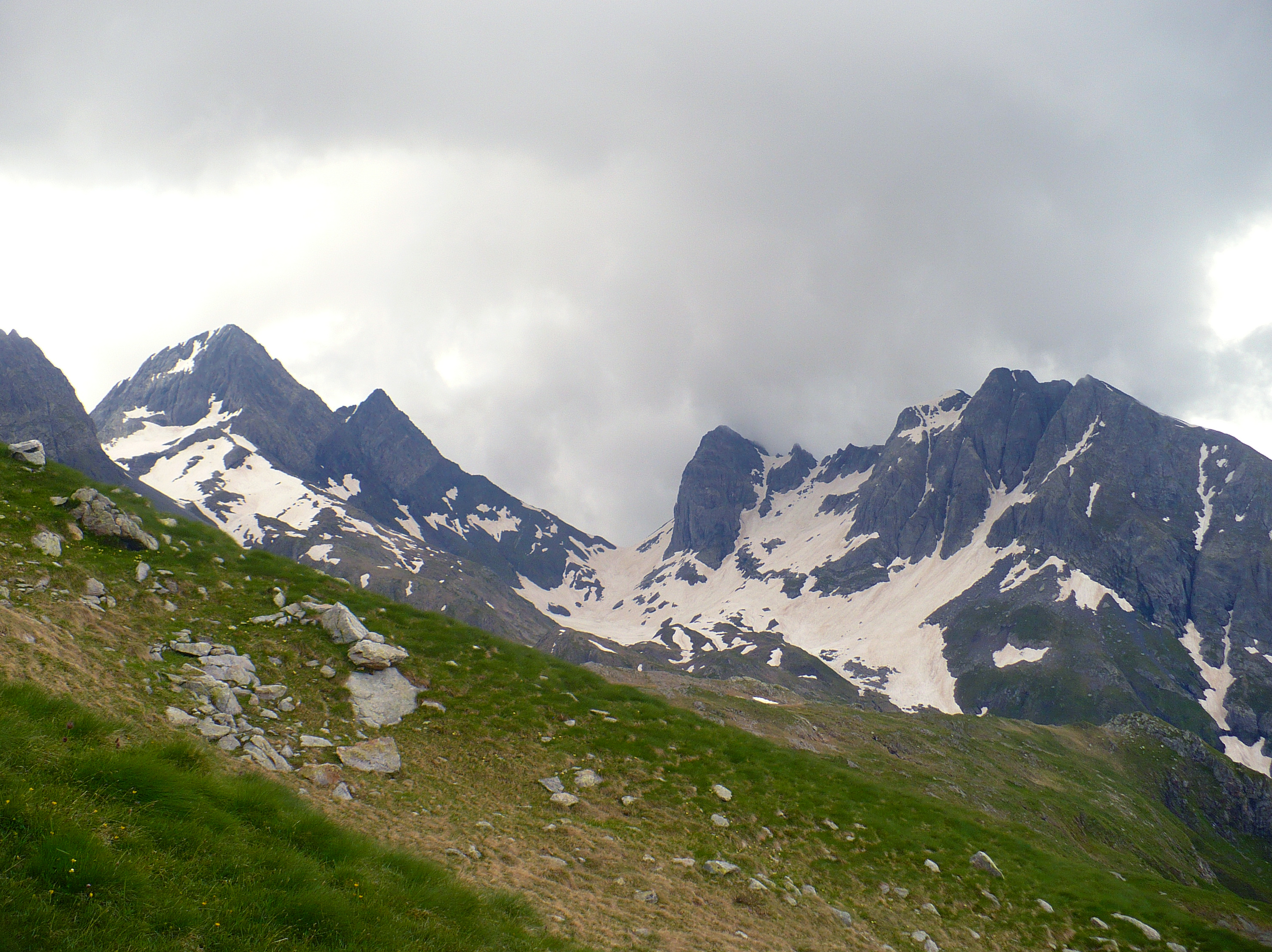 Pizzo del Diavolo di Tenda, Diavolino, Pizzo Poris and Monte Grabiasca seen from the valley above Fratelli Calvi hut.